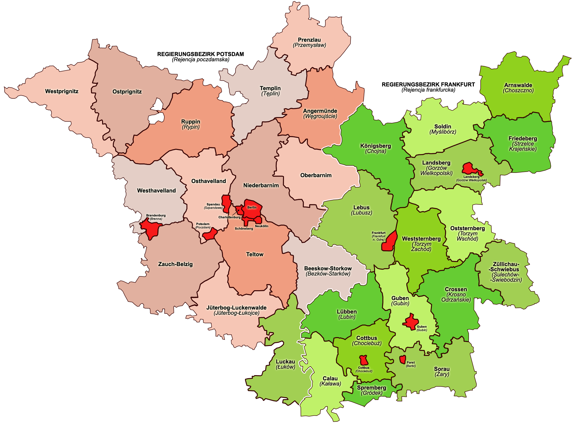 Polska: Mapa administracyjna prowincji Brandenburgia w Królestwie Prus, stan na rok 1905 (Administrative map of Province of Brandenburg in the Kingdom of Prussia as of 1905)